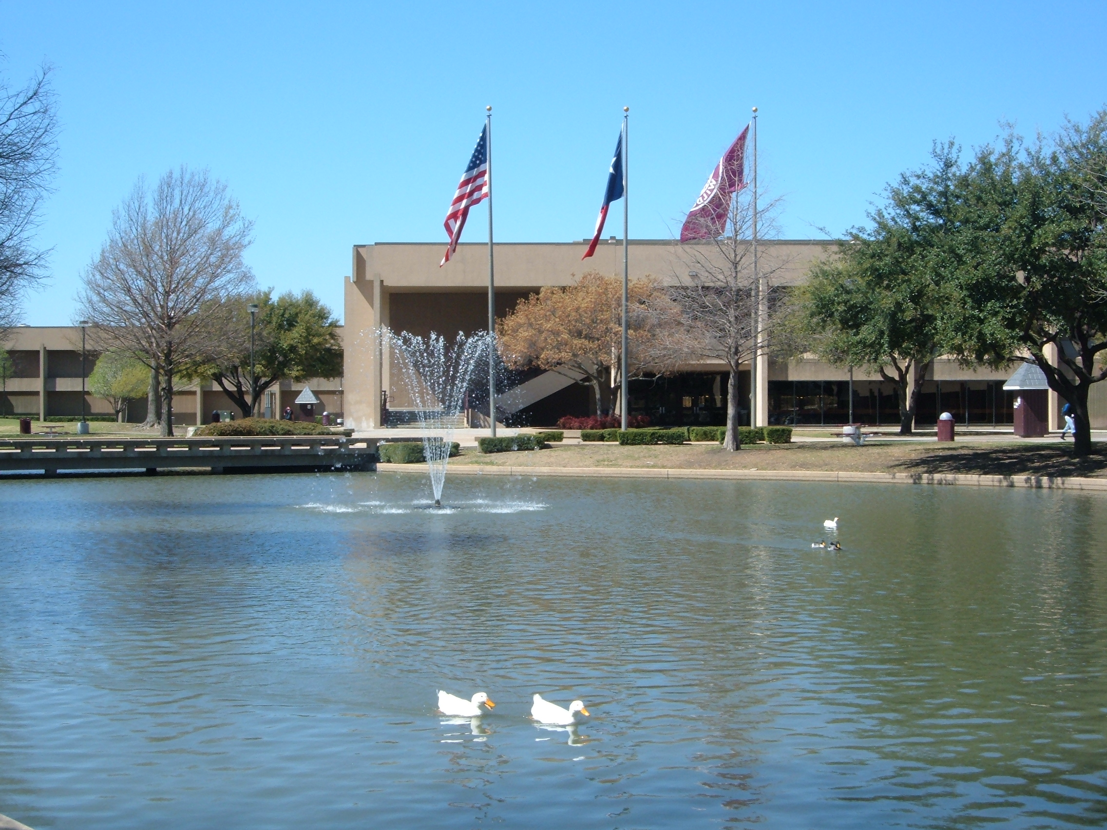 Photo of Plano Senior High School, in Plano, Texas. Original taken on 28 December, 2005.